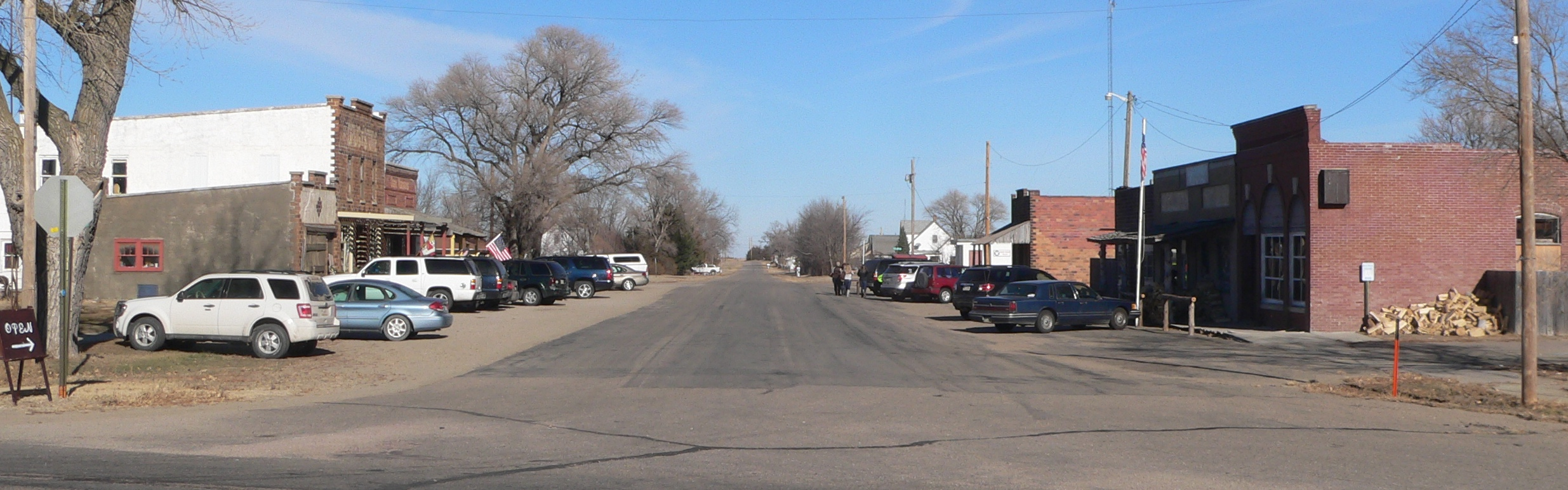 Main Street in Johnstown, Nebraska; looking north from about U.S. Highway 20.